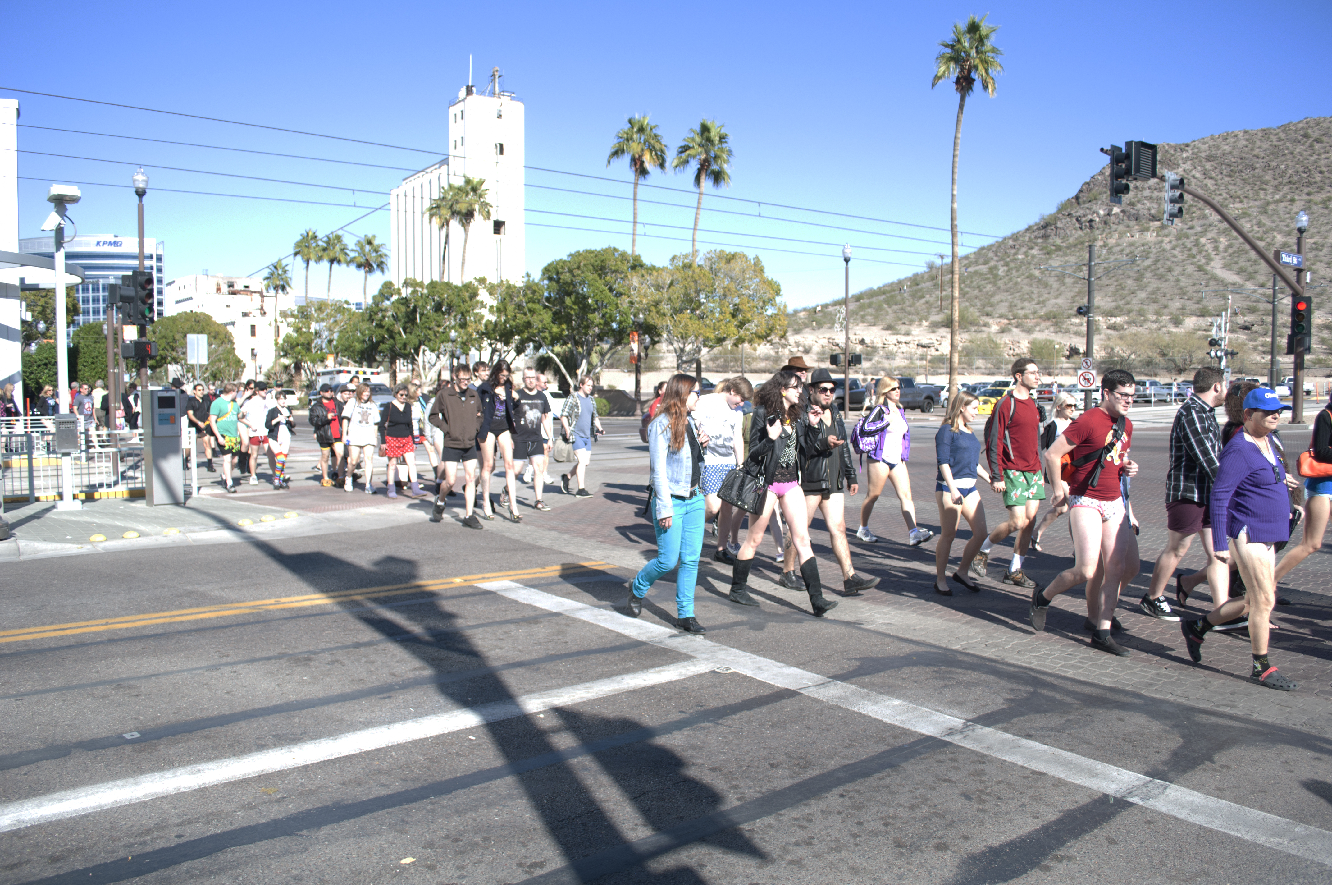 Tempe, Arizona. Pantsless crowd walking on crosswalk. What started as a small prank with seven guys and has grown into an international celebration of silliness, with dozens of cities around the world participating each year. The idea behind No Pants is simple: Random passengers board a subway car at separate stops in the middle of winter without pants. The participants do not behave as if they know each other, and they all wear winter coats, hats, scarves, and gloves. The only unusual thing is their lack of pants.